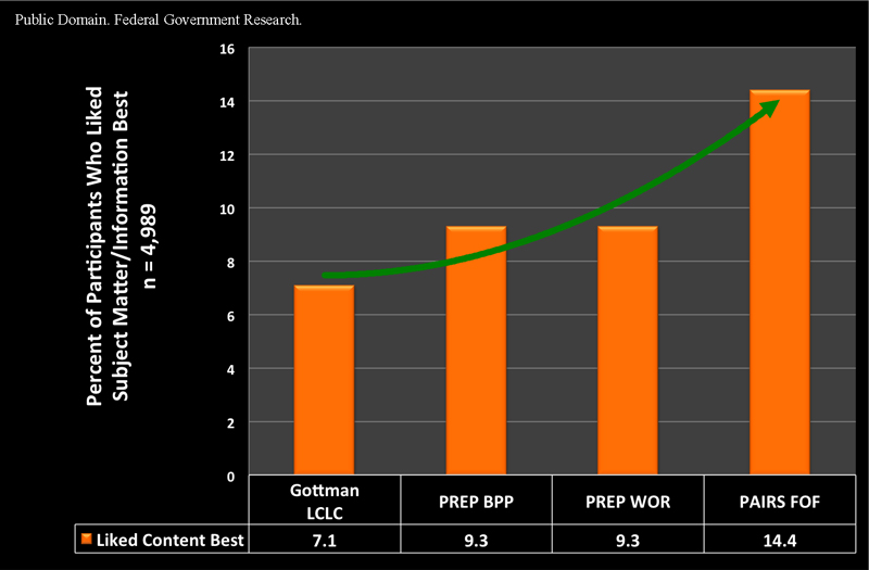 Graphic image